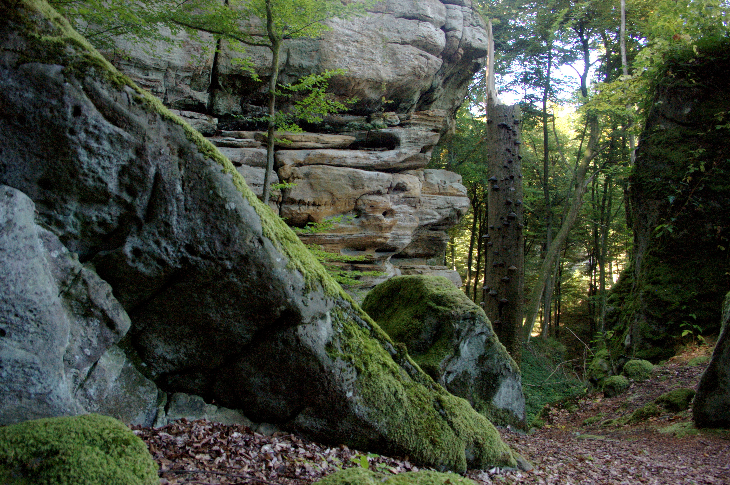 Landscape in the Luxemburgish Swiss, sandstone rocks and beech forests